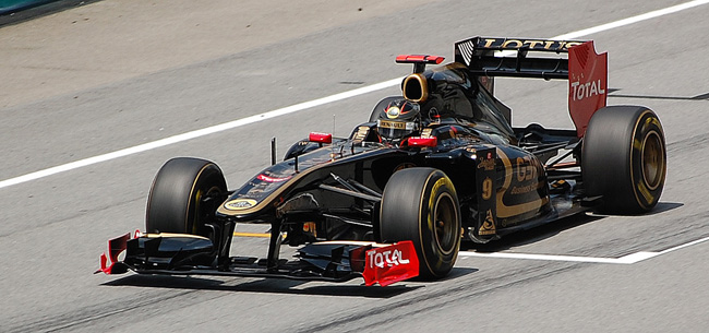 Nick Heidfeld, Lotus Renault GP at Malaysian GP 2011.